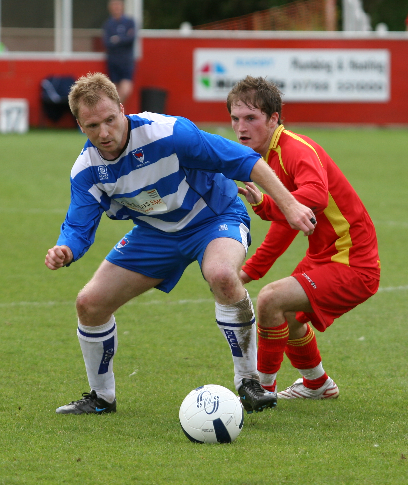 Andy Baird (left), Scottish footballer (with Oxford City F.C. in this photo), being defended by a Banbury United F.C. player (right)